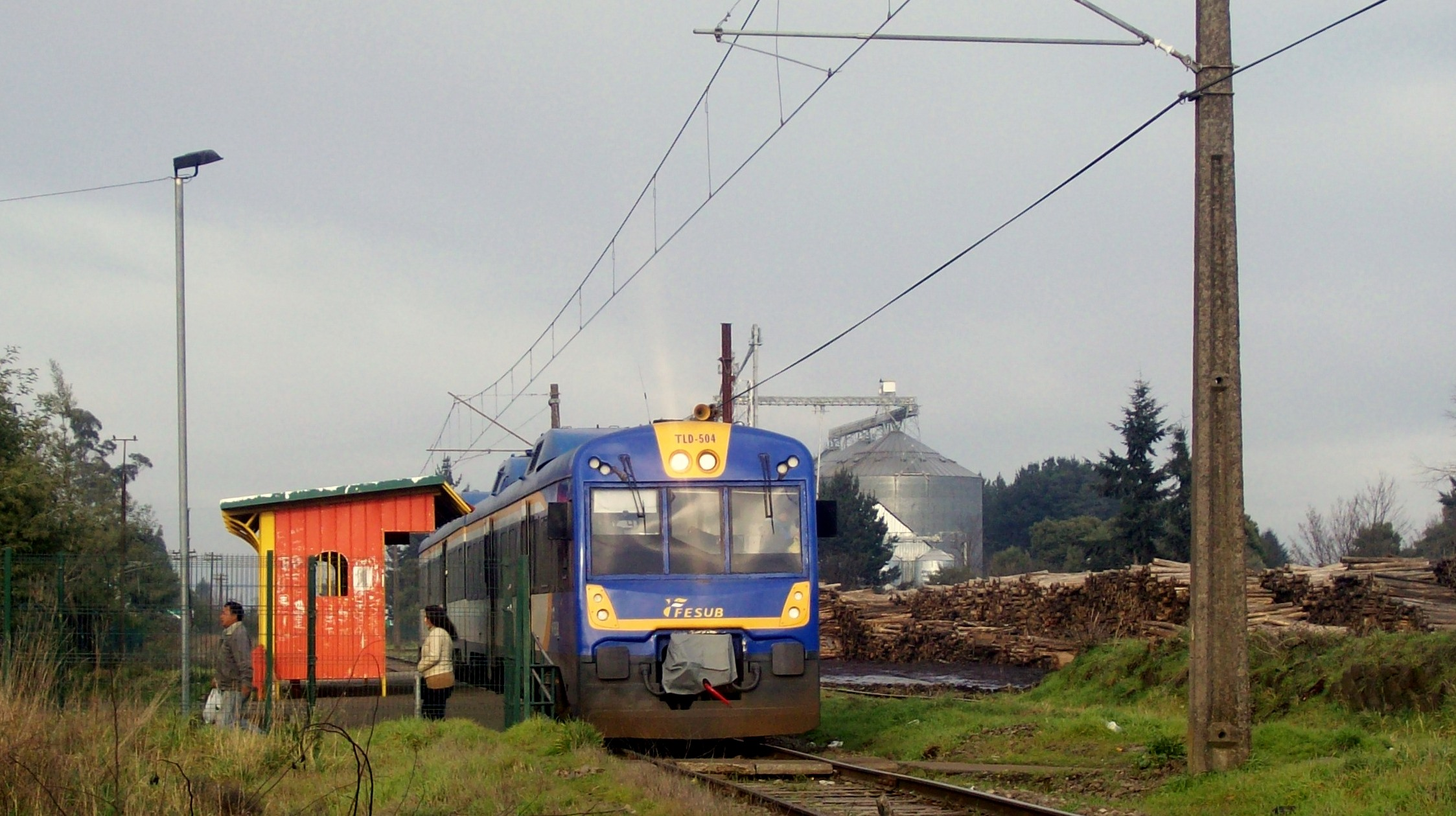 Fesub, Chile